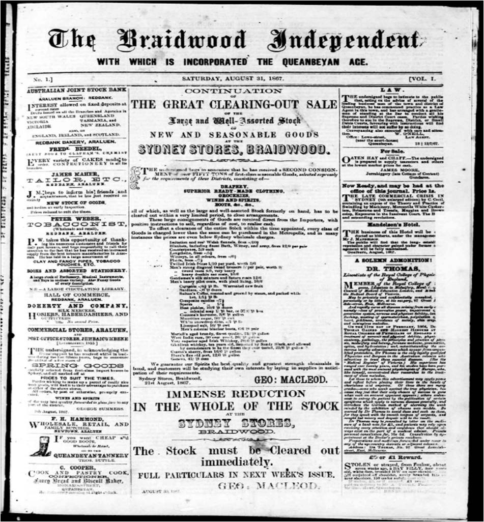 Coverpage of a historic newspaper from New South Wales, Australia.